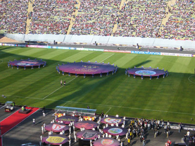 UEFA Women's Champions League Final - 1. FFC Frankfurt v Lyon